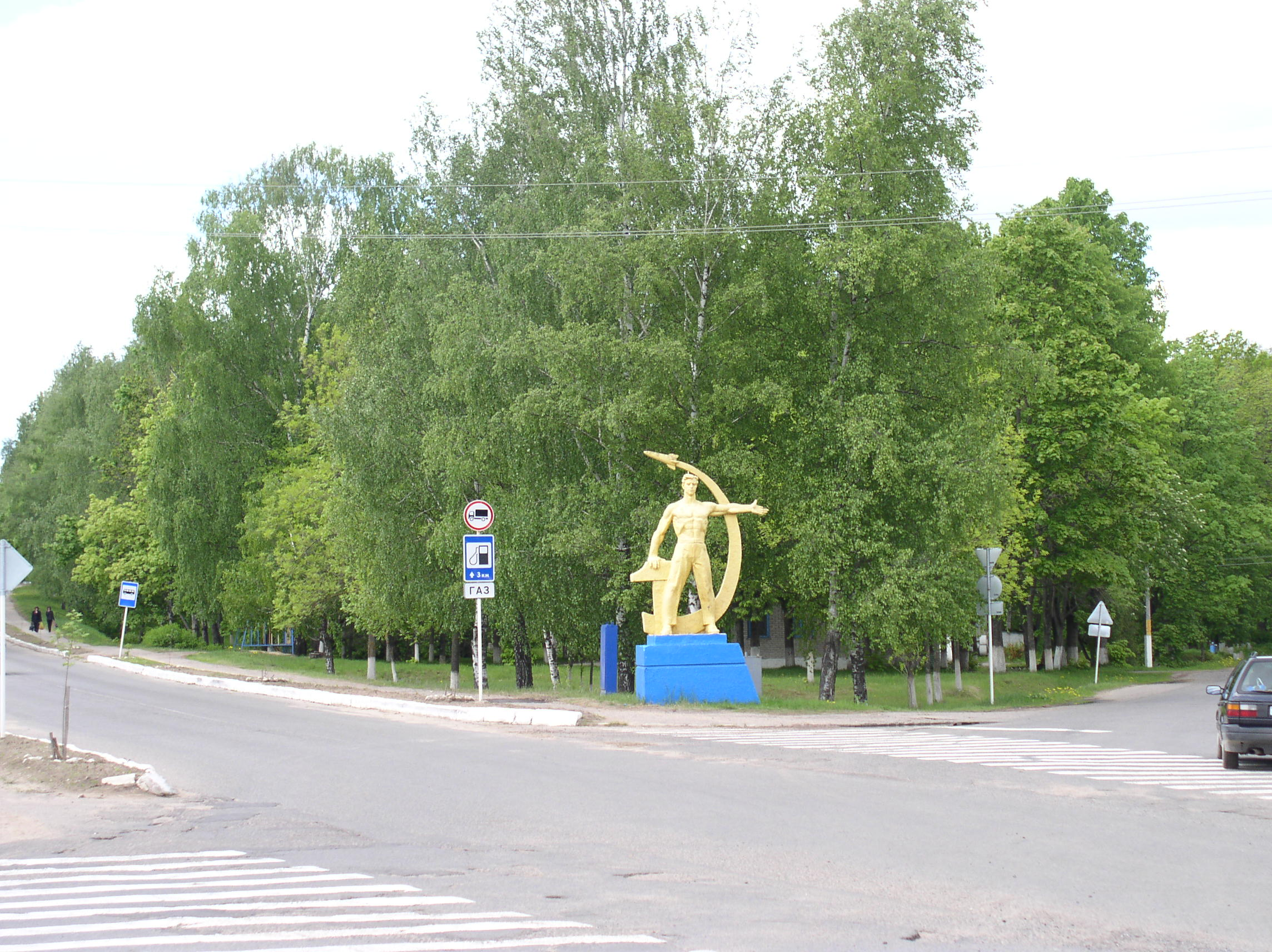 Monument "Worker". Beshankovichy, Belarus.